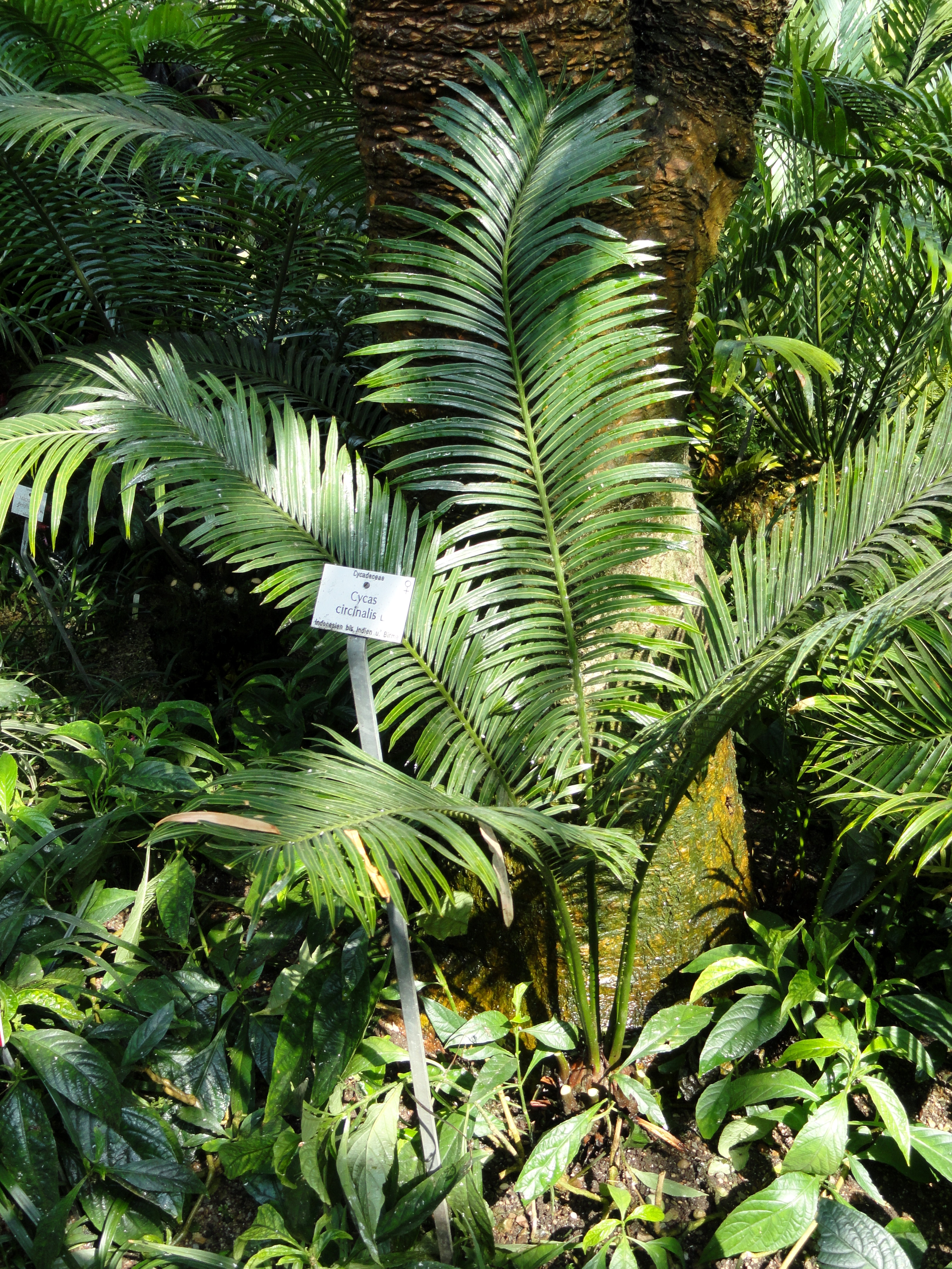 Cycas circinalis specimen in the Botanischer Garten München-Nymphenburg, Munich, Germany.